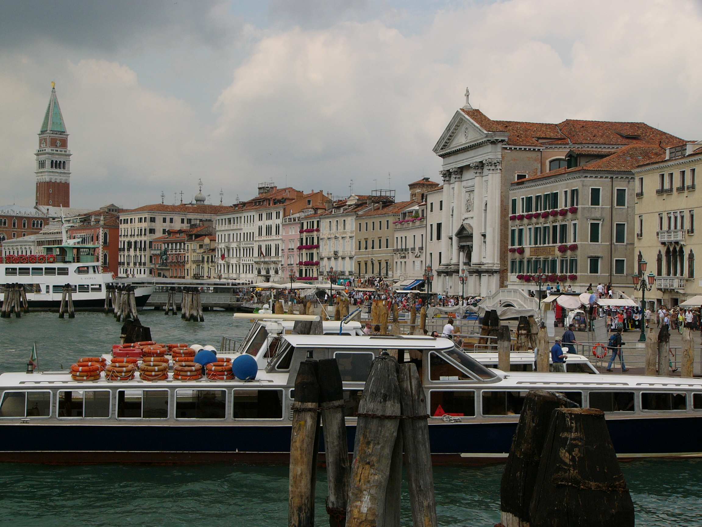 Riva degli Schiavoni in Venice